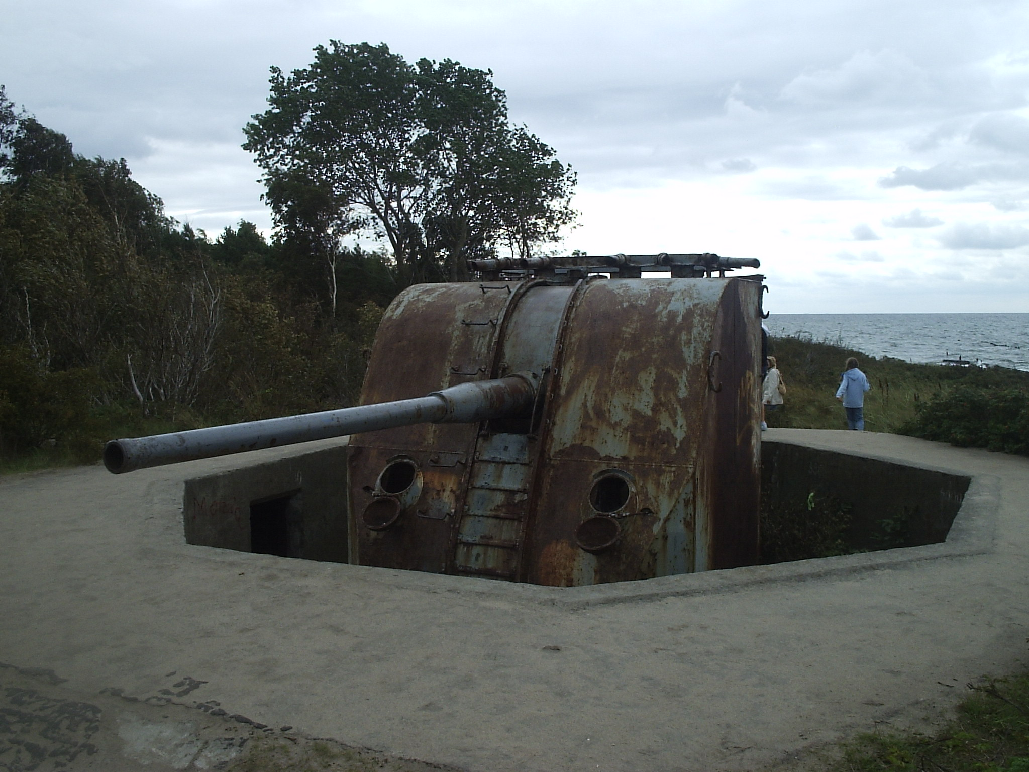 Hel. One of military relics in Hel Pennisula. Anti-ship 100m gun (B 34u, Russian) of 27 Bateria Artylerii Stałej.